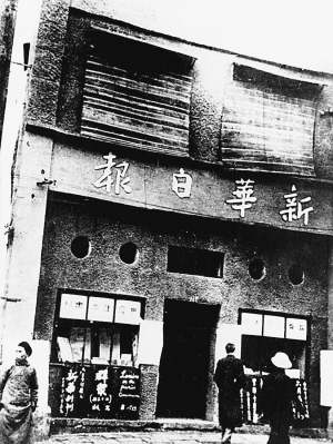 This picture was taken at 1946, the copyright has expired